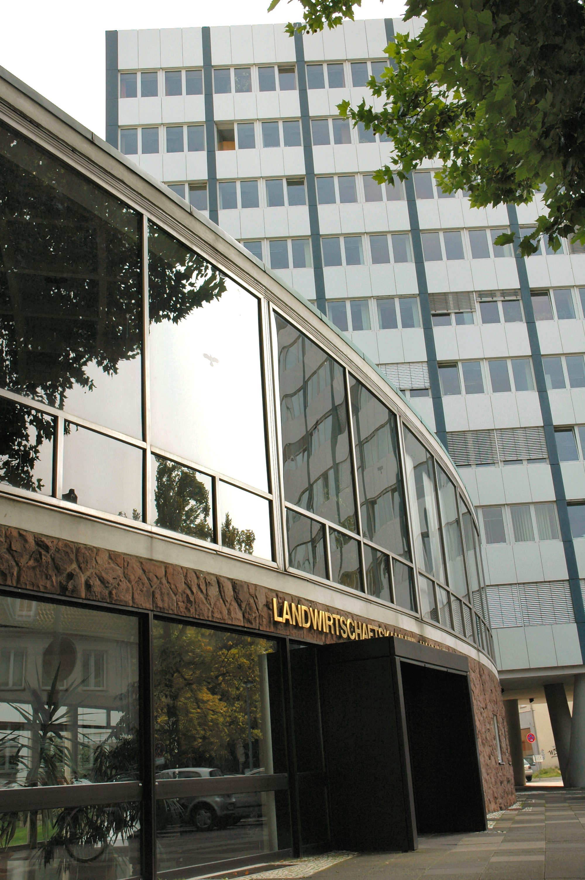 Headquarter of the chamber of agriculture of Hannover